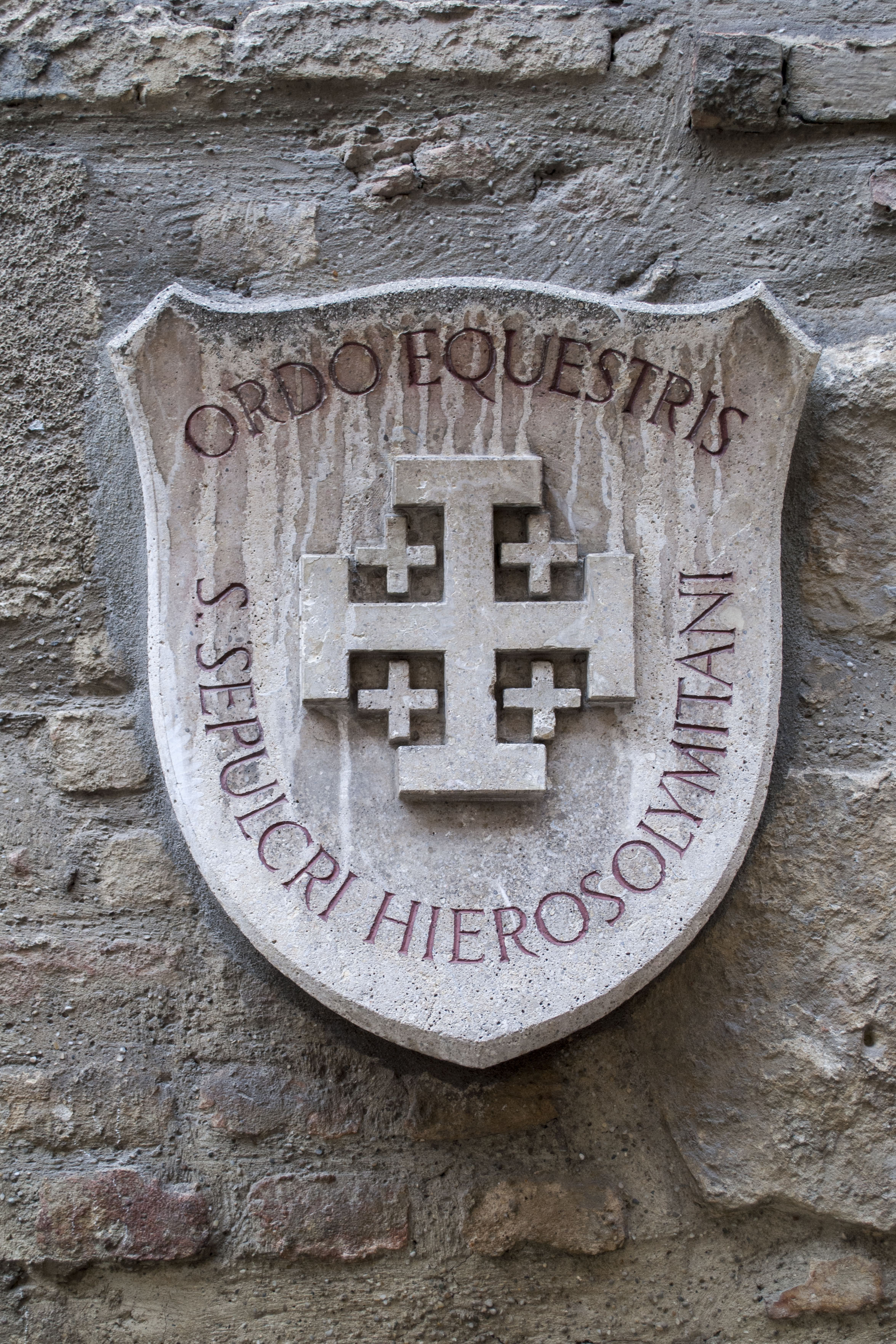 Ruprechtskirche, Vienna, Wien - The Equestrian Order of the Holy Sepulchre of Jerusalem (lat.: "Ordo Equestris Sancti Sepulcri Hierosolymitani", OESSH) is a Roman Catholic order of knighthood.